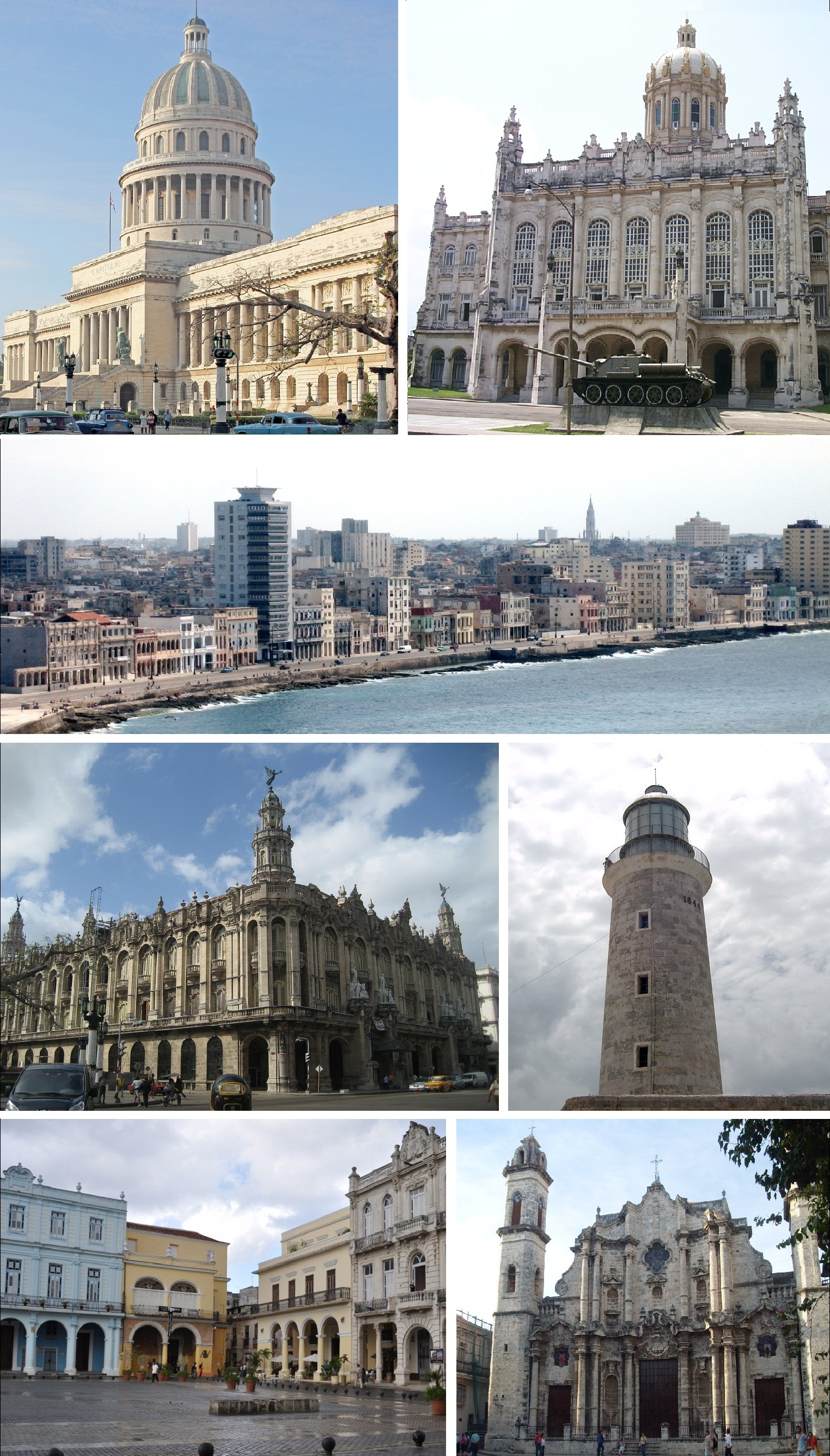 From top, clockwise: El Capitolio Museum of the Revolution, front facade view, central Havana. El Malecón El Morro Fortress Lighthouse Havana Cathedral Old Havana Square Great Theatre of Havana